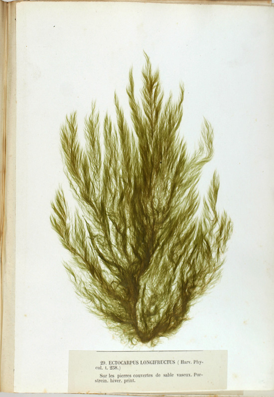 « Ectocarpus longifructus » = Ectocarpus longifructus